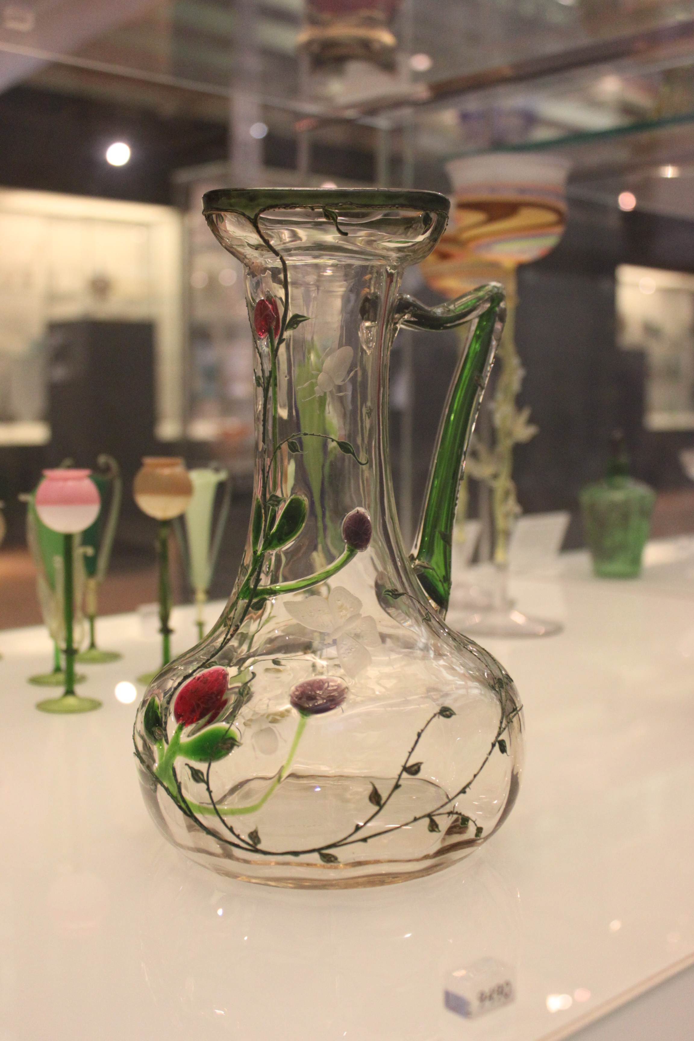 Jug Bohemia, Karlsbad (Karlovy Vary) L. Moser & Söhne About 1900 Engraved, applied colours, enamelled and gilt Naturalistically engraved insects among tendrils and buds of applied coloured glass, the Moser glassworks produced this glass which was described at the time as part of the "Karlsbad Secession", better known as the "Vienna Secession". Inscription: "4"incised. Gift of A. R. Goldworthy. Collection ID: C.10-1969 This photo was taken as part of Britain Loves Wikipedia in February 2010 by Jenny O'Donnell.